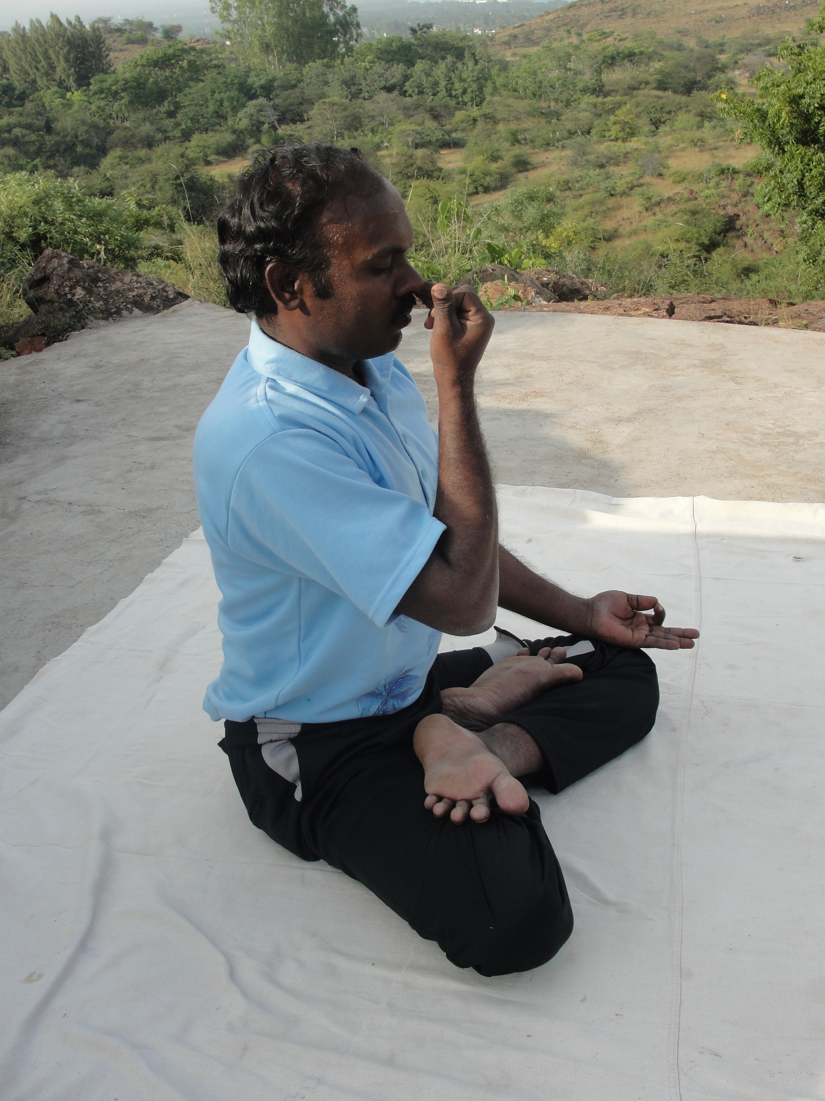 A style of nadi suddhi 1